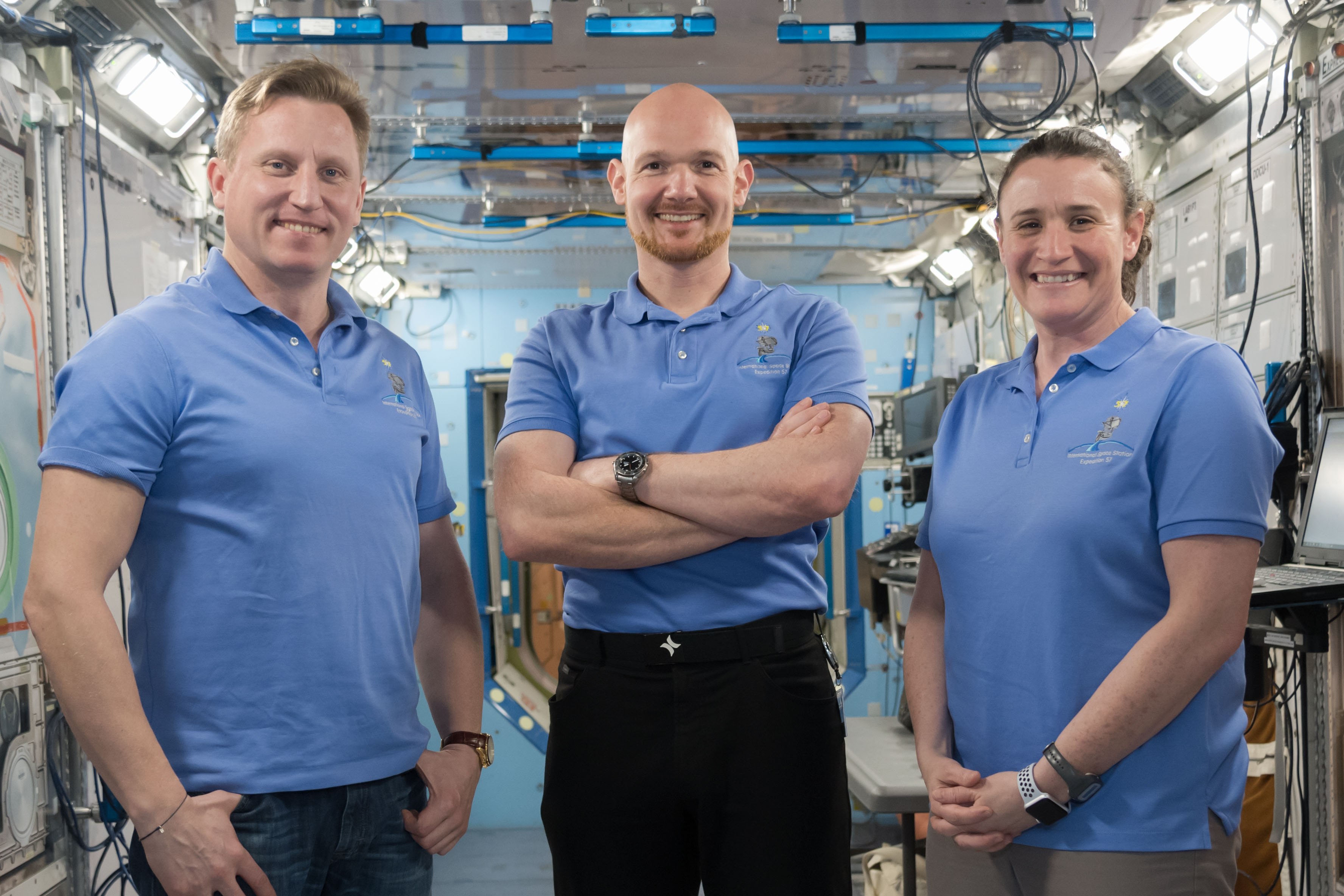 Expedition 56/57 crew members Alexander Gerst, Serena Aunon-Chancellor and Sergei Prokopev during Routine Ops training in SVMF.